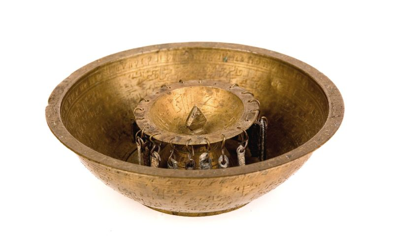 Magic bowl